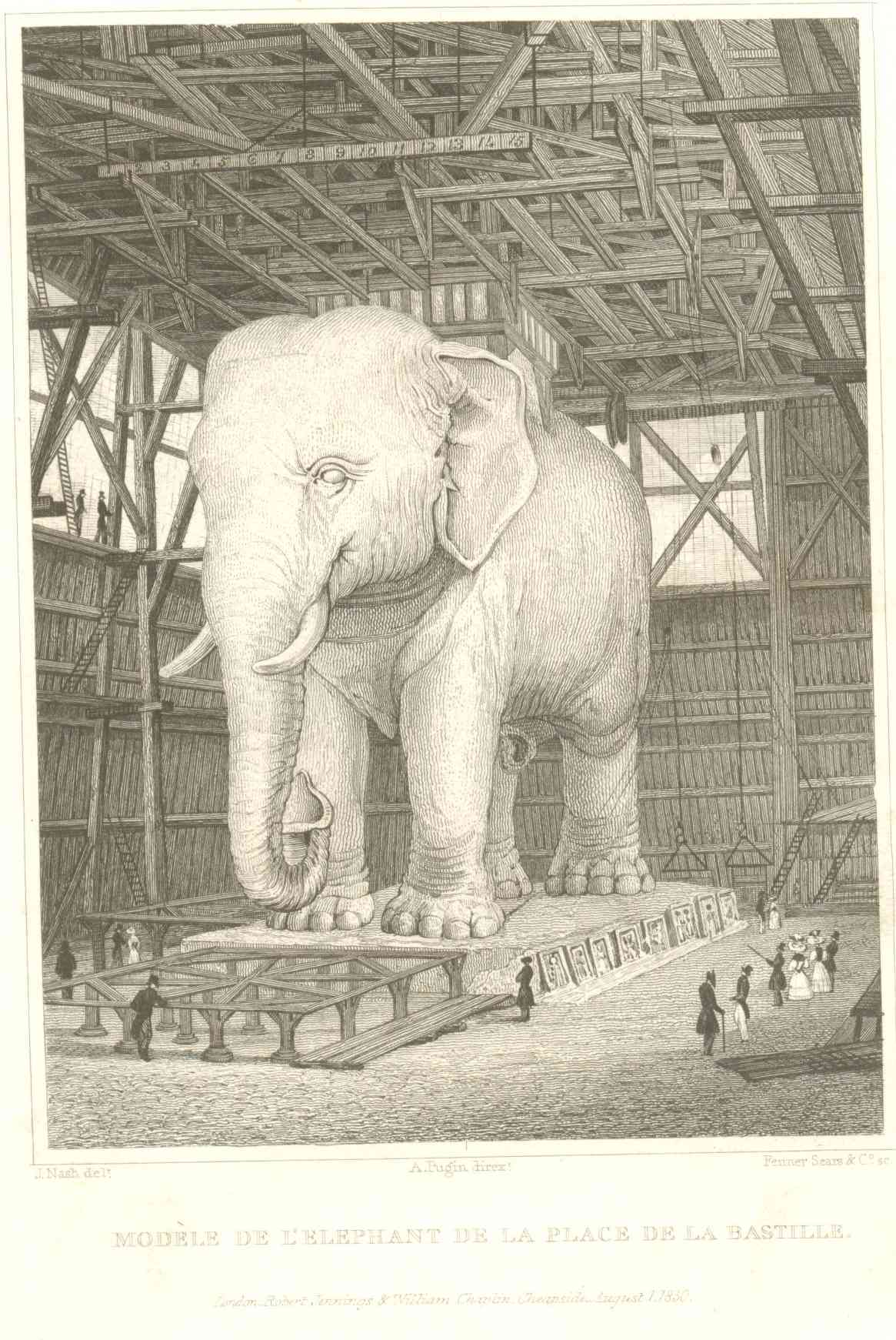 Augustus Welby Northmore Pugin , Siderograph (steel engraving) of the plaster full-scale model of the (not actually built) bronze monument/statue of an elephant at the Place de la Bastille, 12.7 x 9.5 cm.